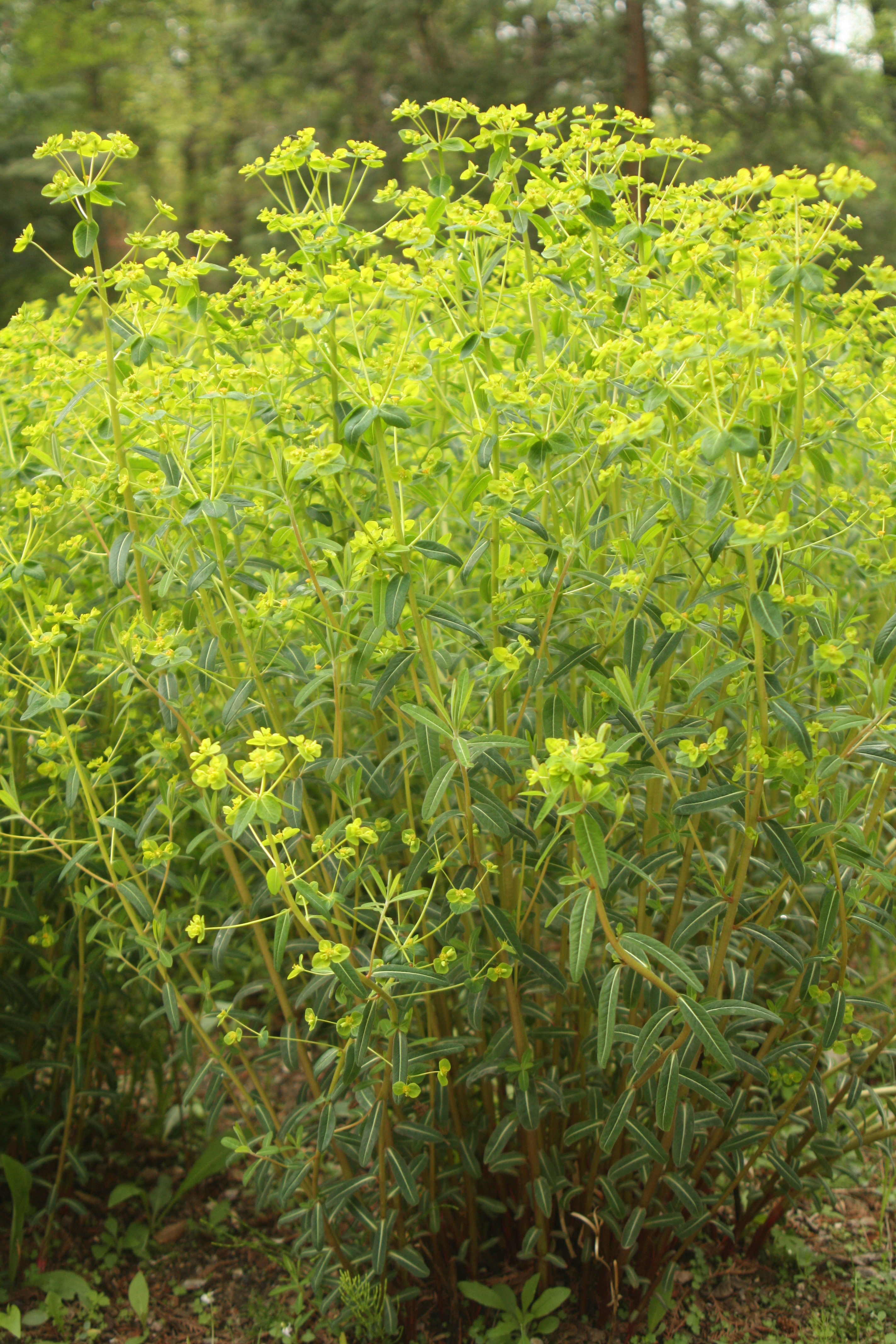 Euphorbia pekinensis in Seoul, Korea